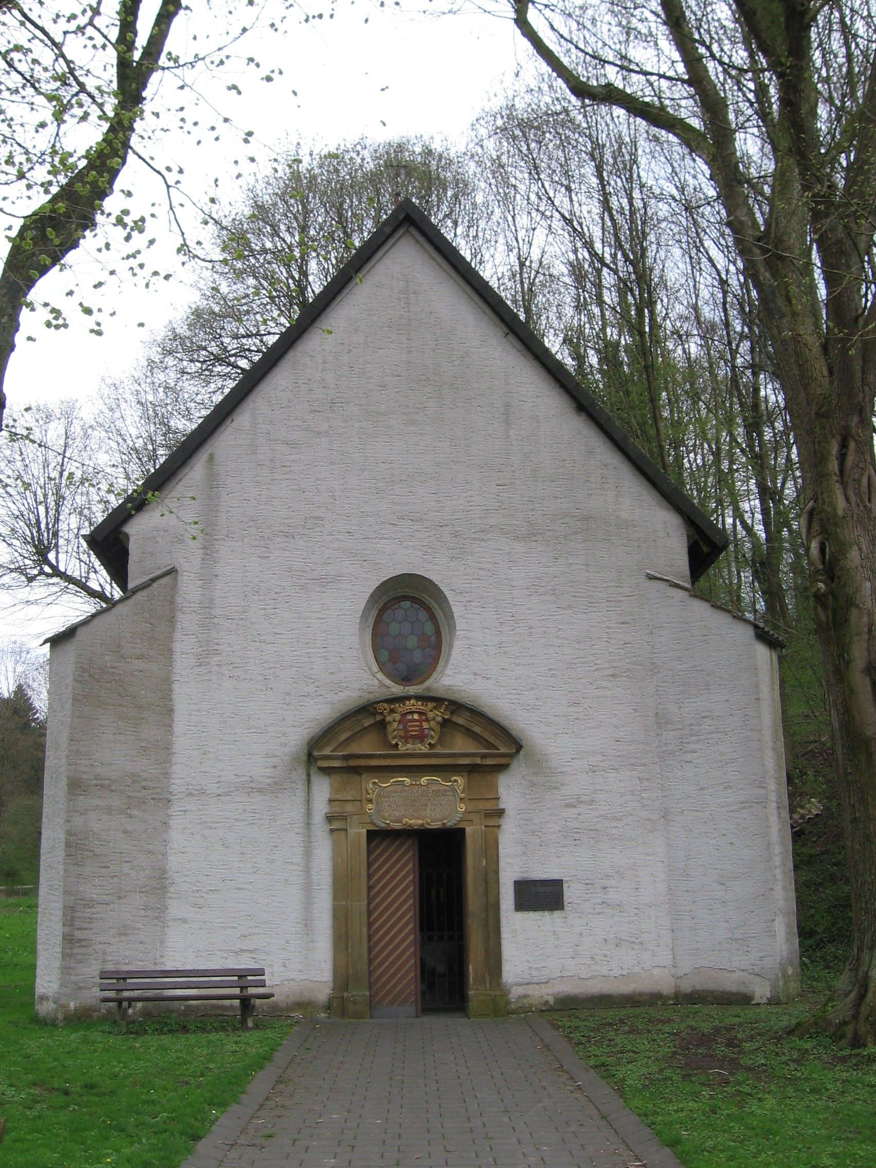 Chapel of Etteln, North Rhine-Westphalia, Germany.